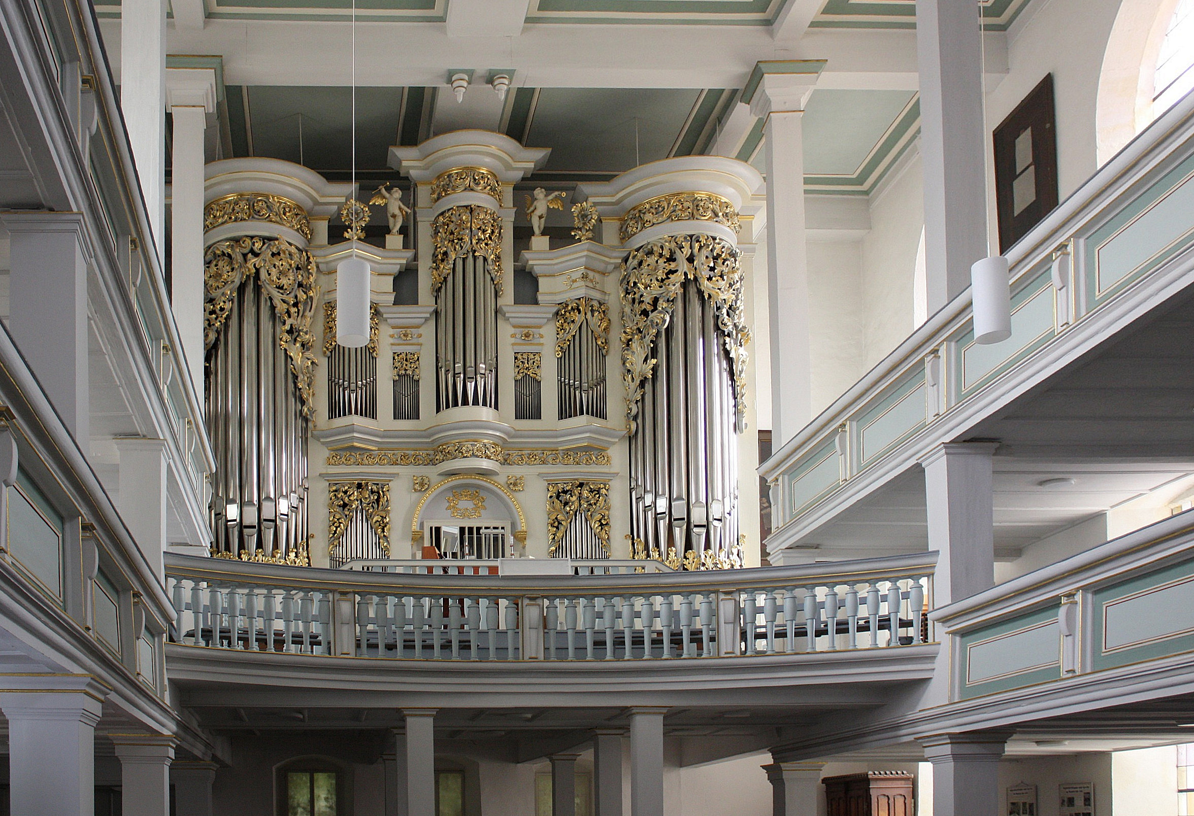 Gotha, the Augustinerkirche